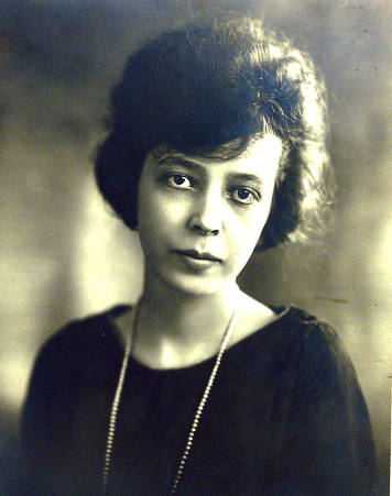 Headshot of Sara Haardt